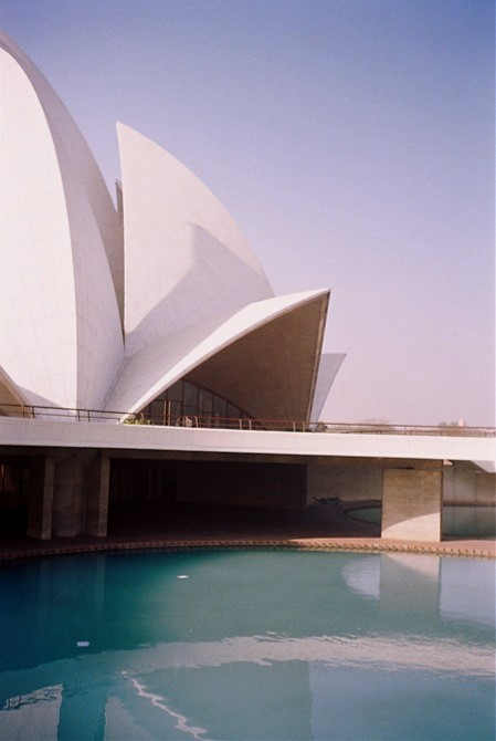 The Baha'i Temple, aka Lotus Temple, Delhi